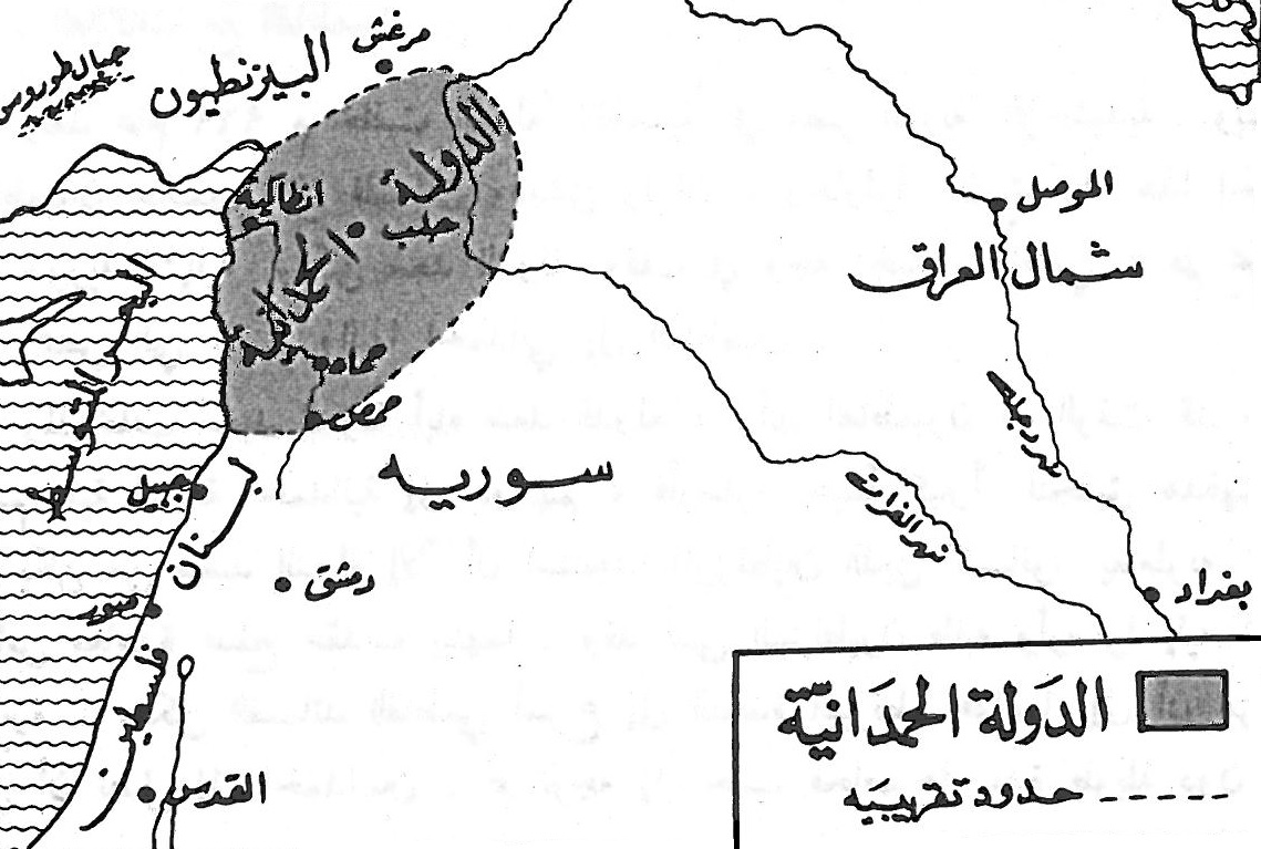 Map showing the approximate boarders of the Hamdanid dynasty state, after the peace treaty with the Ikhshidids.